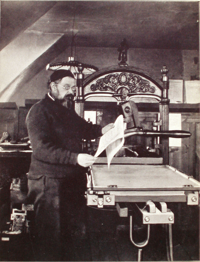 Simon Bernsteen, (1850-1920) was a Danish printer